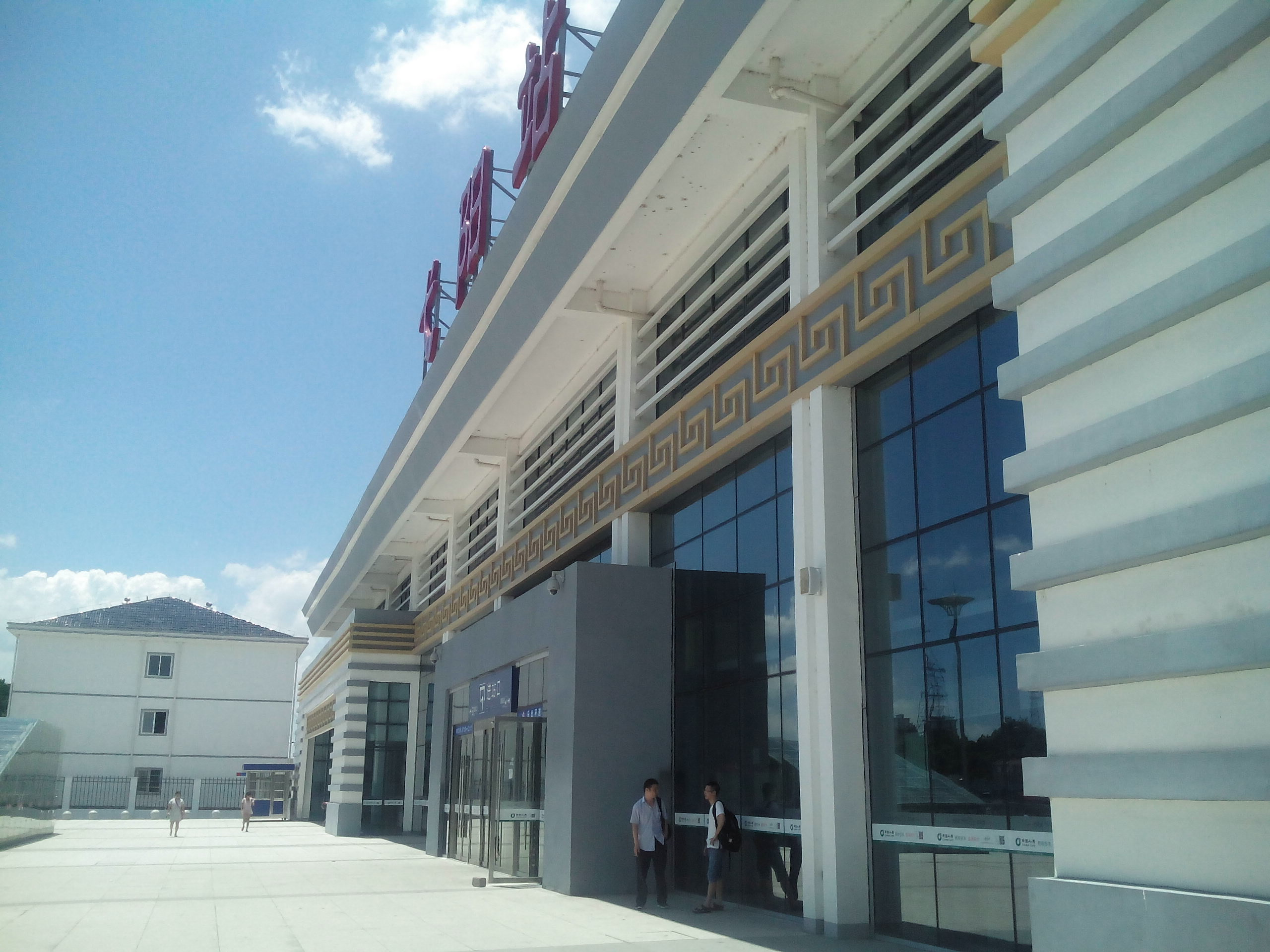 201507 Entrance of Yiyang Station